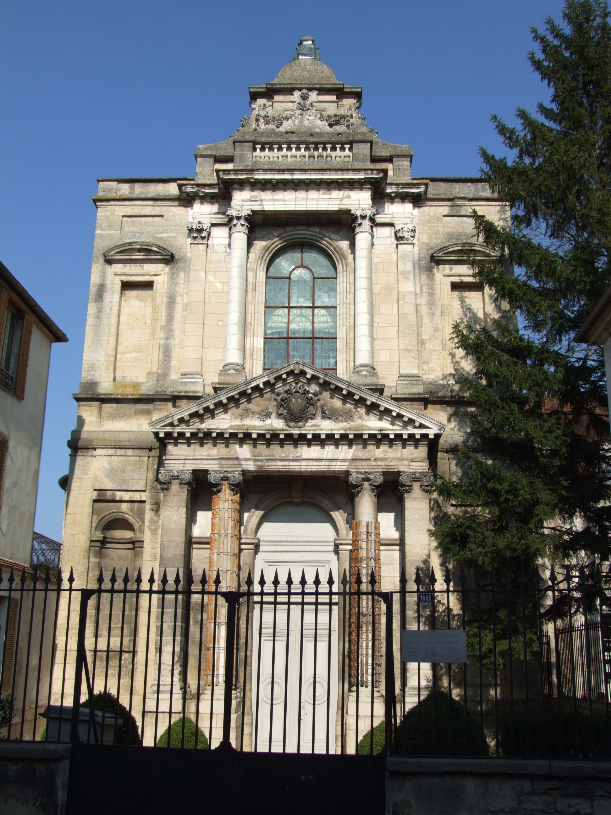 Auxerre, Burgundy, FRANCE